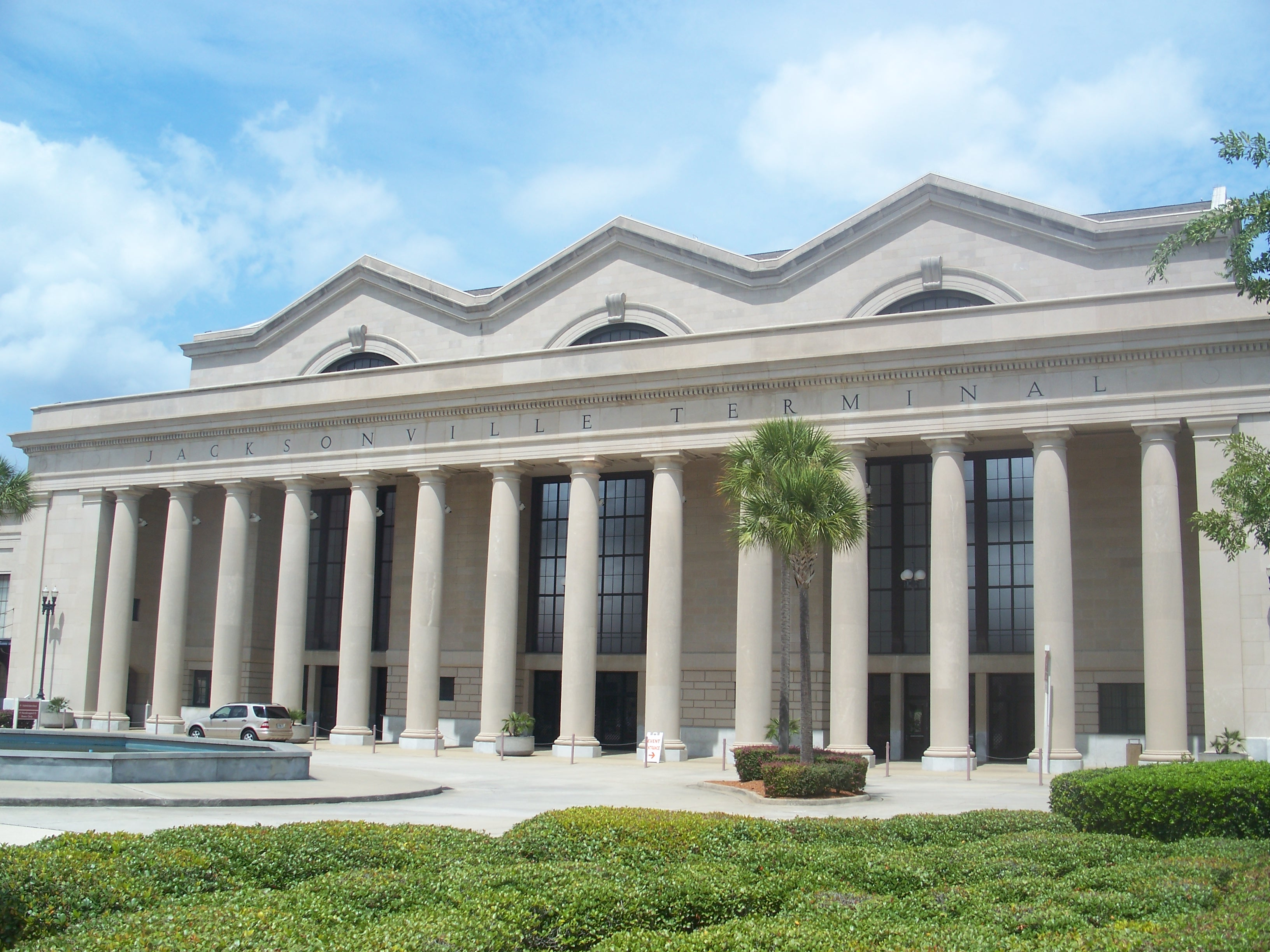 Jacksonville, Florida: Union Station (Jacksonville)